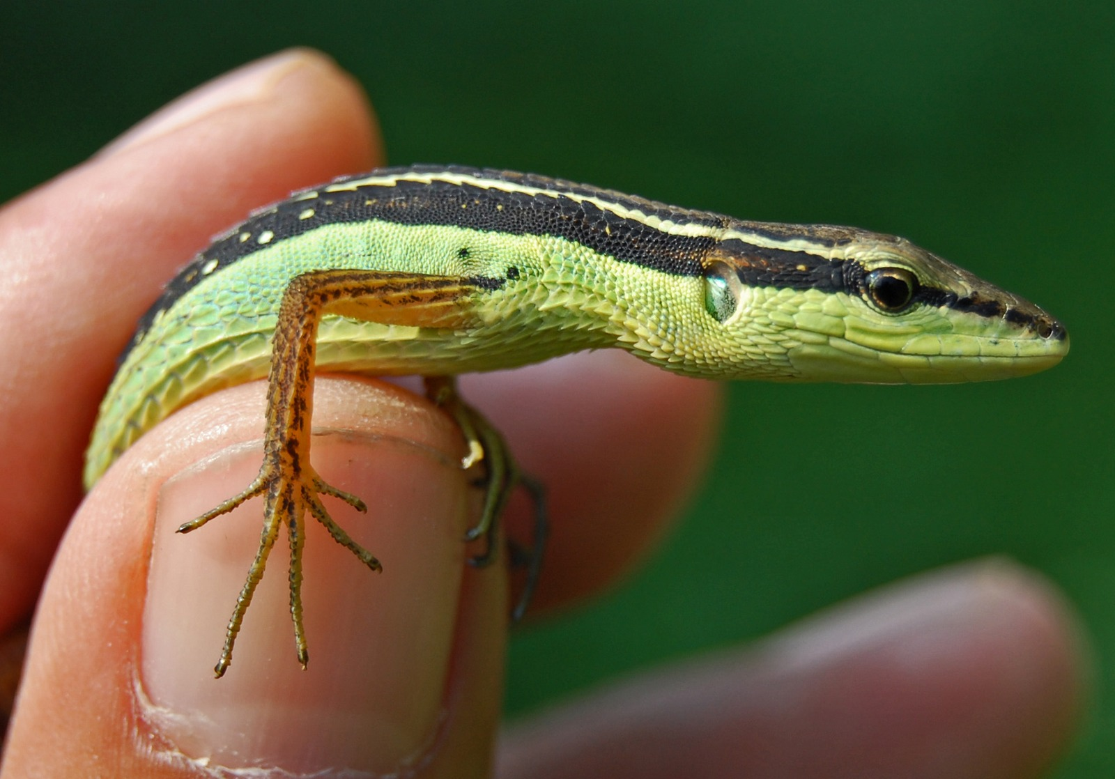 Takydromus sexlineatus, male from Darmaga, Bogor, West Java, Indonesia